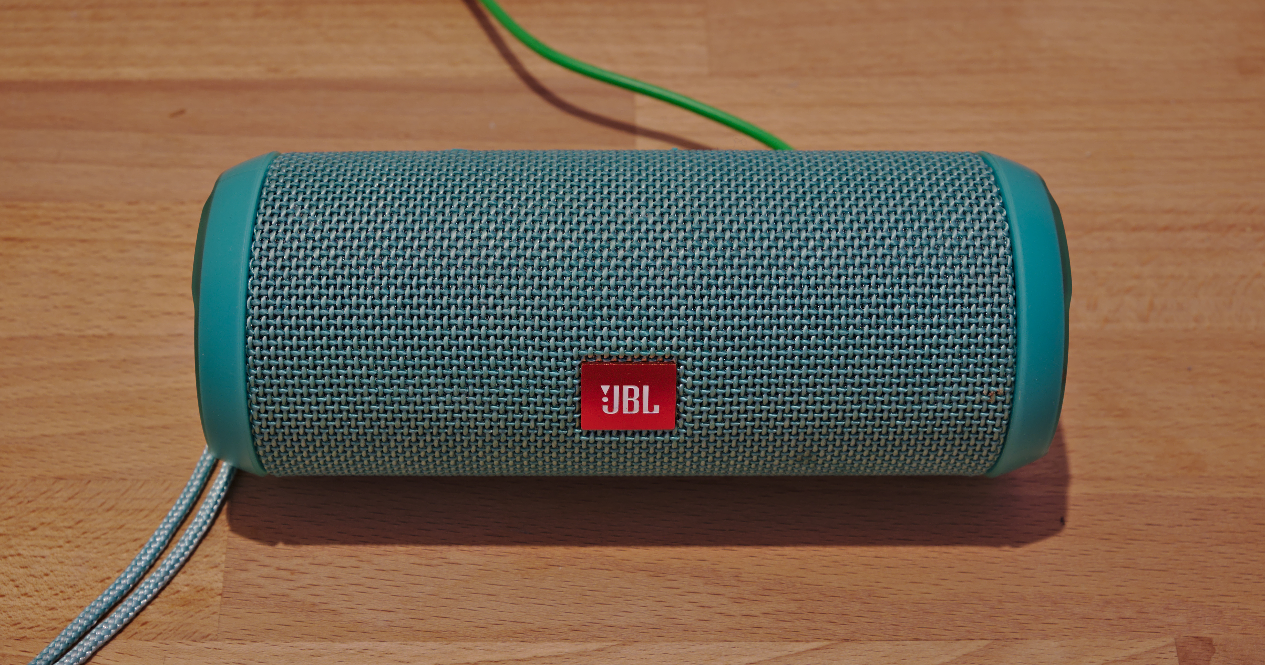 JBL Flip 3 bluetooth speaker (DSCF2653)